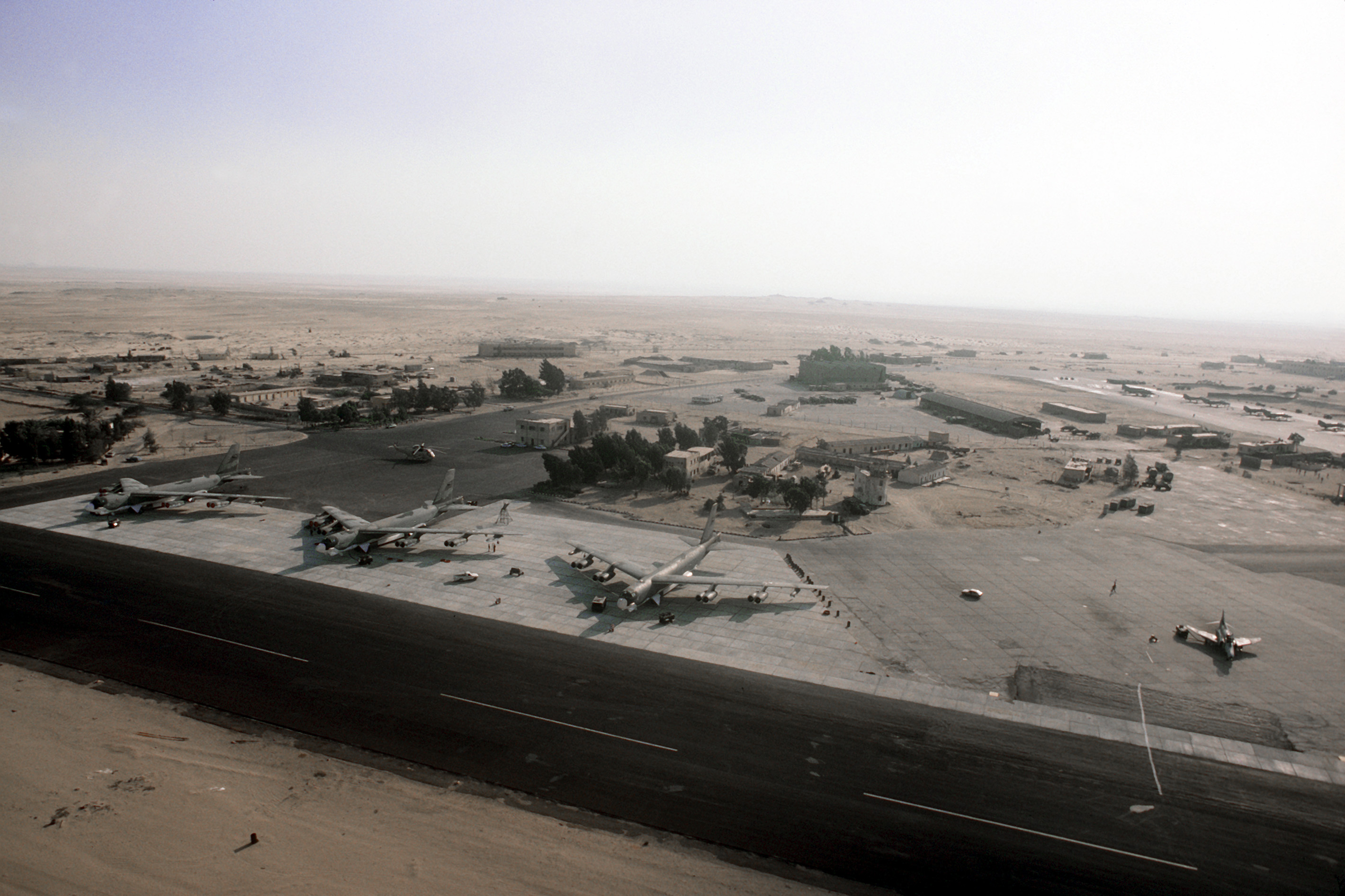 Aerial view of Cairo West Airport the staging site for aircraft participating in BRIGHT STAR '83, the joint U.S. and Egyptian military training exercise. Three U.S. Air Force B-52G bombers are on the parking ramp.